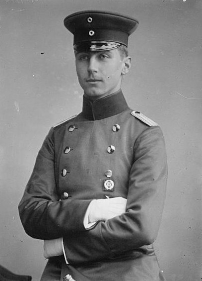 Prince Oskar of Prussia (1888 – 1958), son of Kaiser Wilhelm II